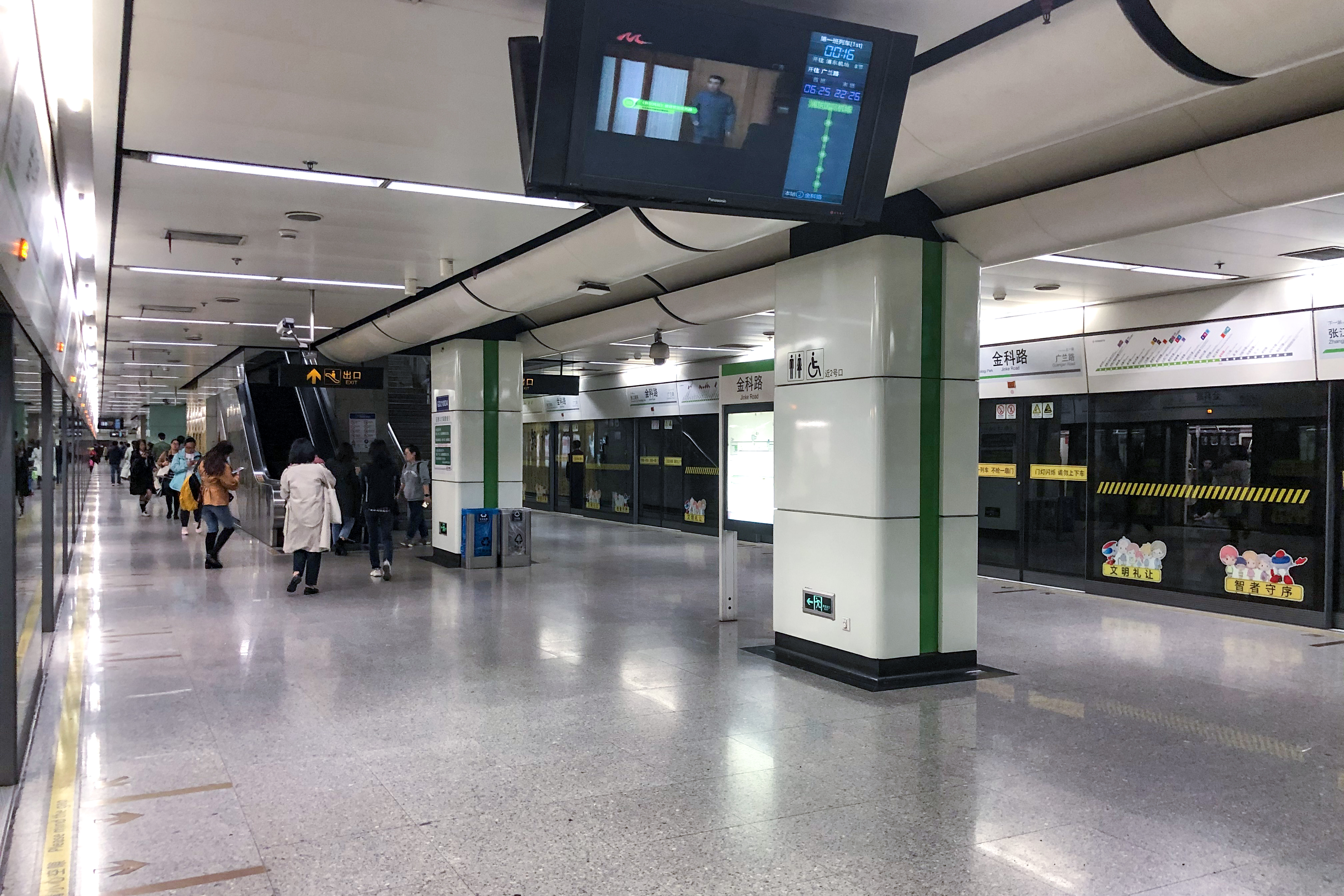 Not to be confused with Jinkela...